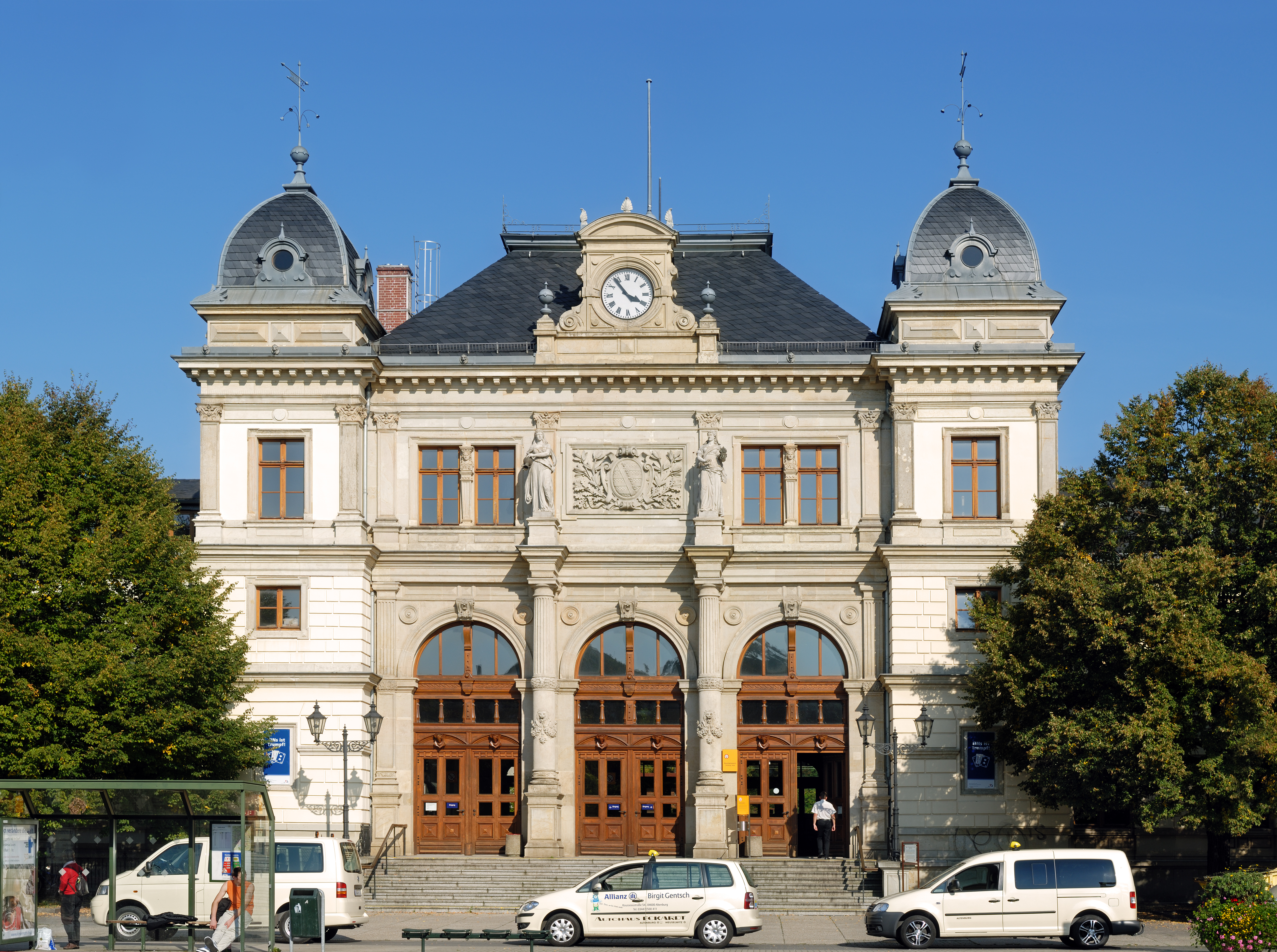 This image shows the train station building in Altenburg, Germany. It is a four segment panoramic image.